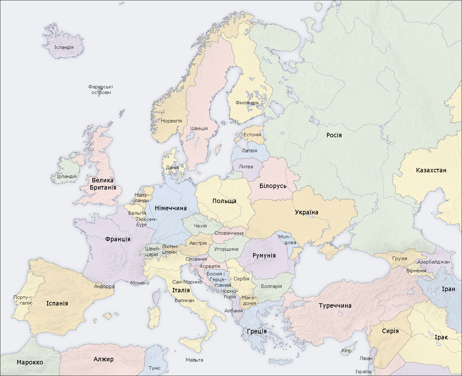 Map of countries in Europe